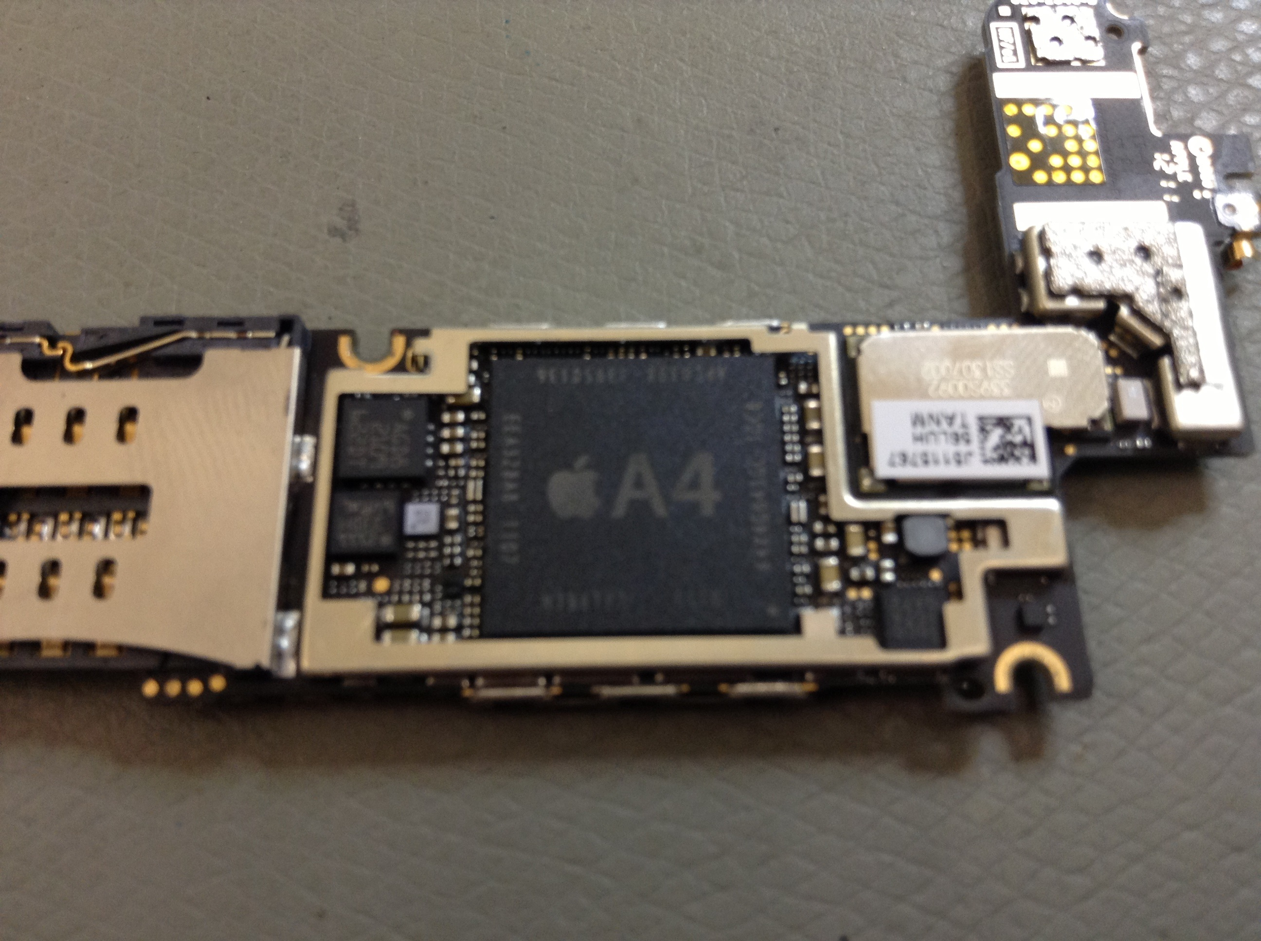 Samsung S5L8930 SoC on a logicboard. Also known as Apple A4